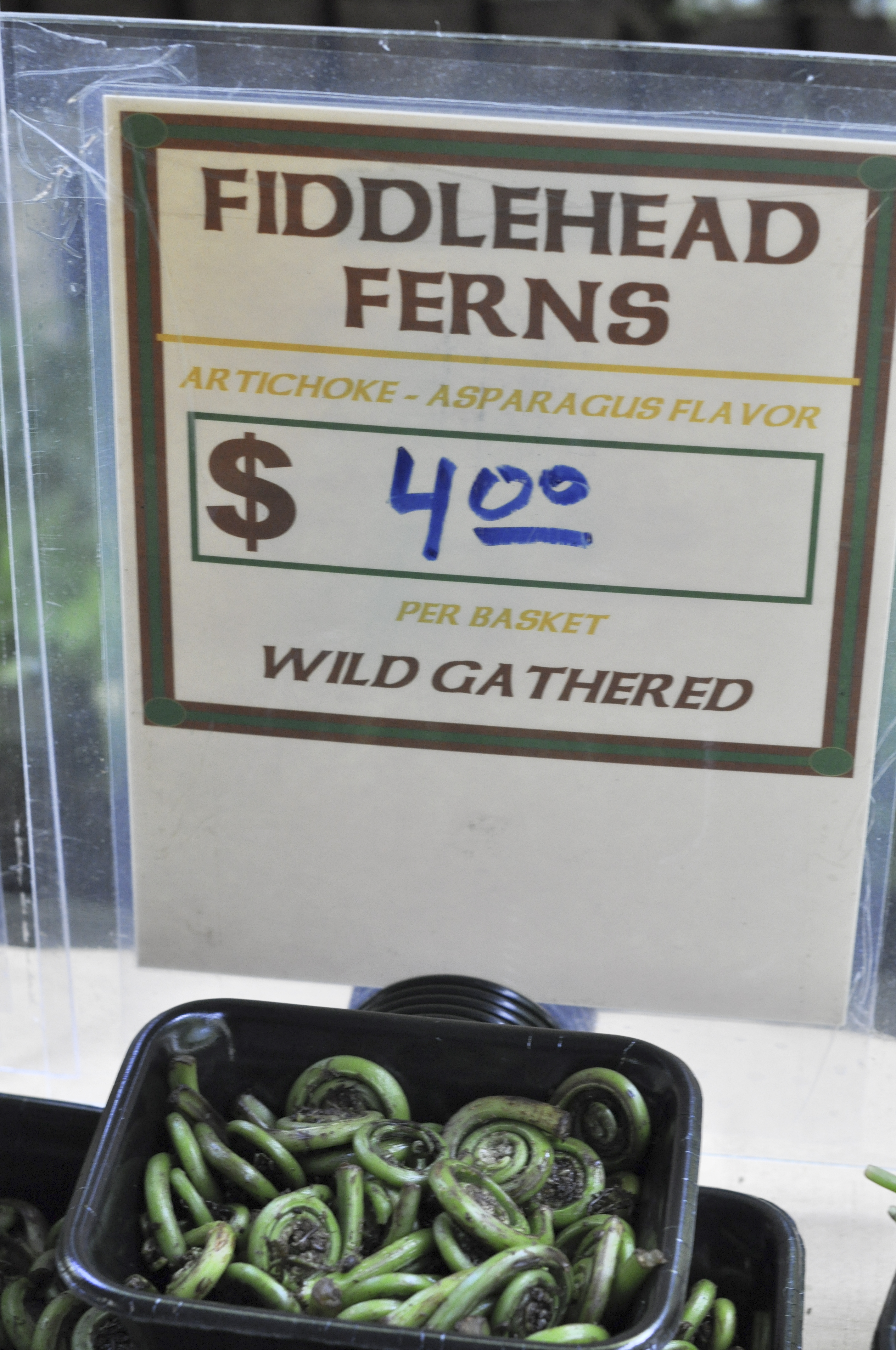 Fiddlehead ferns for sale at the Portland, Oregon Farmer's Market.